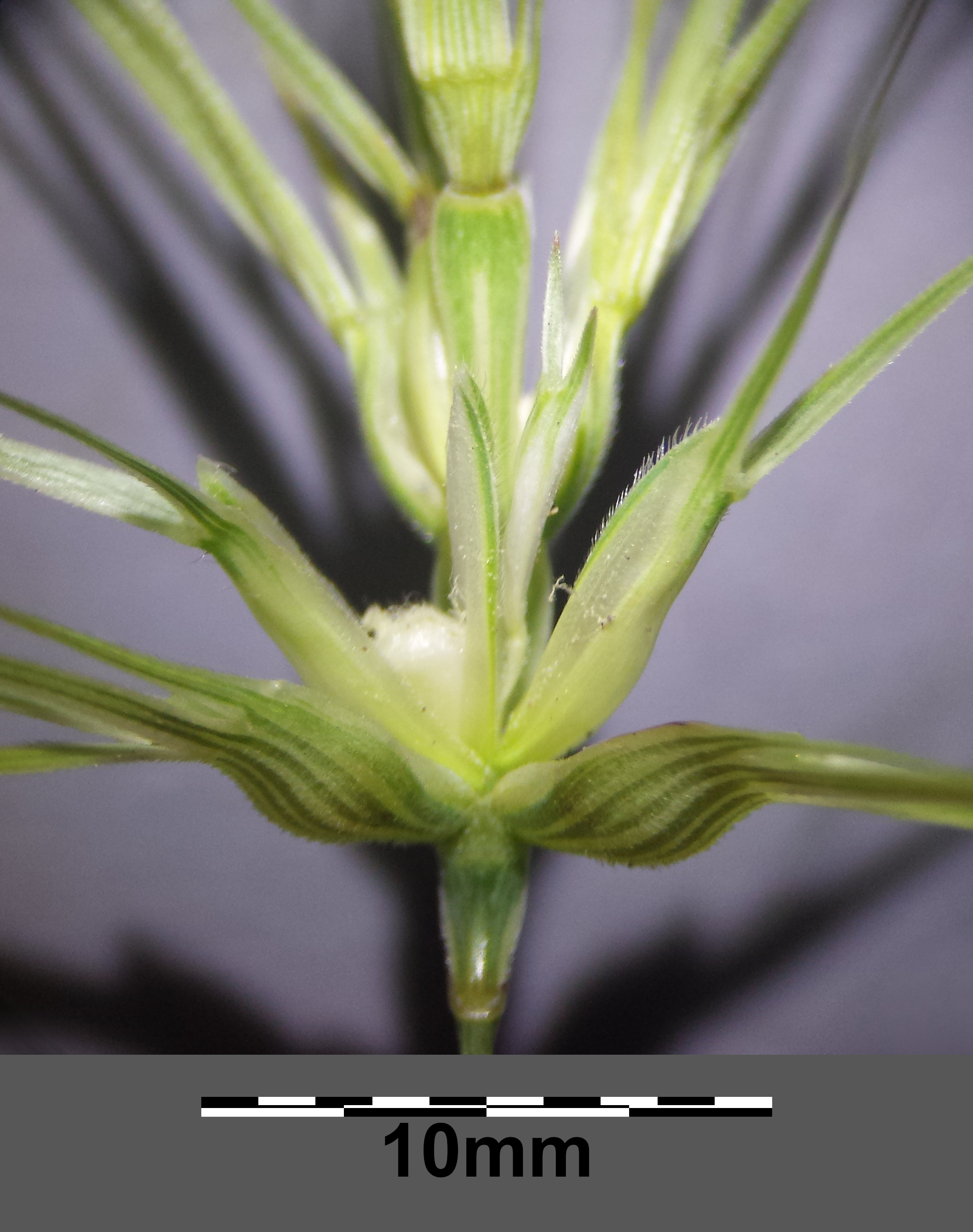 Spikelet, expanded Taxonym: Aegilops geniculata ss Rottensteiner: Exkursionsflora für Istrien ISBN 978-3-85328-067-6 Location: southweast of Stara Baška, community Punat, Krk, County Primorje-Gorski kotar, Croatia Habitat: rocks nearby seaside